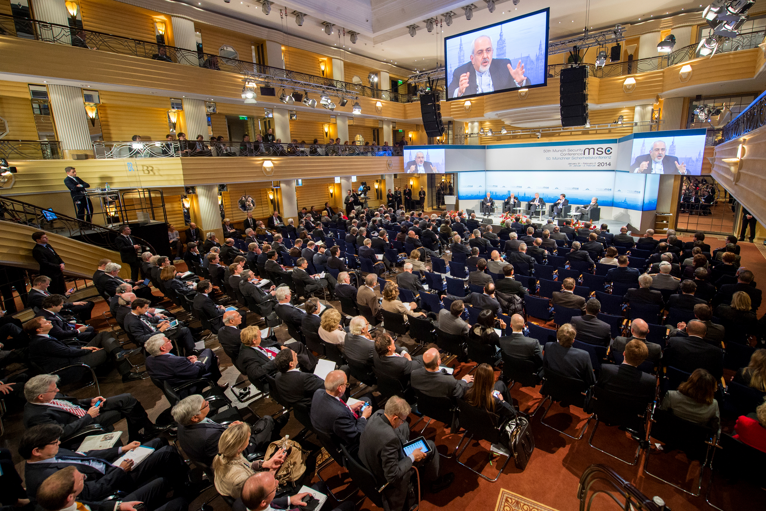 50th Munich Security Conference 2014: Iran: Audience